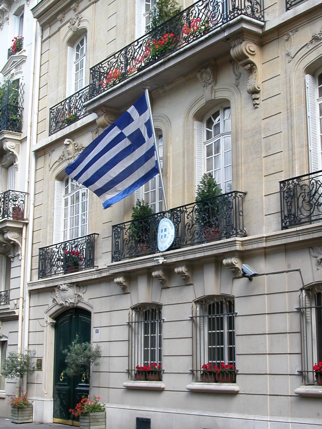 Greek embassy in France, Paris